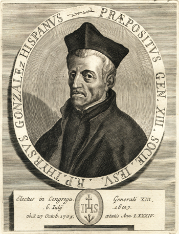 The Jesuit Thyrsus González1624 (1624-1705).